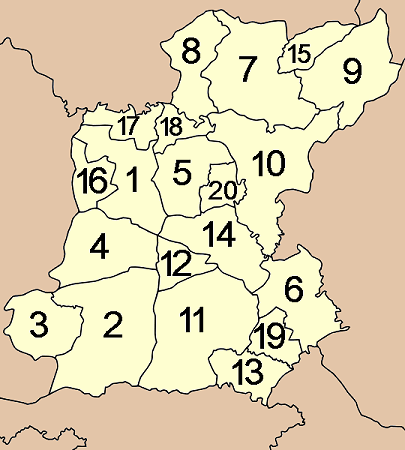 Map of Roi Et province, Thailand, with the districts (Amphoe) numbered Mueang Roi Et (อำเภอเมืองร้อยเอ็ด) Kaset Wisai (อำเภอเกษตรวิสัย) Pathum Rat (อำเภอปทุมรัตต์) Chaturaphak Phiman (อำเภอจตุรพักตรพิมาน) Thawat Buri (อำเภอธวัชบุรี) Phanom Phrai (อำเภอพนมไพร) Phon Thong (อำเภอโพนทอง) Pho Chai (อำเภอโพธิ์ชัย) Nong Phok (อำเภอหนองพอก) Selaphum (อำเภอเสลภูมิ) Suwannaphum (อำเภอสุวรรณภูมิ) Mueang Suang (อำเภอเมืองสรวง) Phon Sai (อำเภอโพนทราย) At Samat (อำเภออาจสามารถ) Moei Wadi (อำเภอเมยวดี) Si Somdet (อำเภอศรีสมเด็จ) Changhan (อำเภอจังหาร) Chiang Khwan (sub-district) (กิ่งอำเภอเชียงขวัญ) Nong Hi (sub-district) (กิ่งอำเภอหนองฮี) Thung Khao Luang (sub-district) (กิ่งอำเภอทุ่งเขาหลวง)